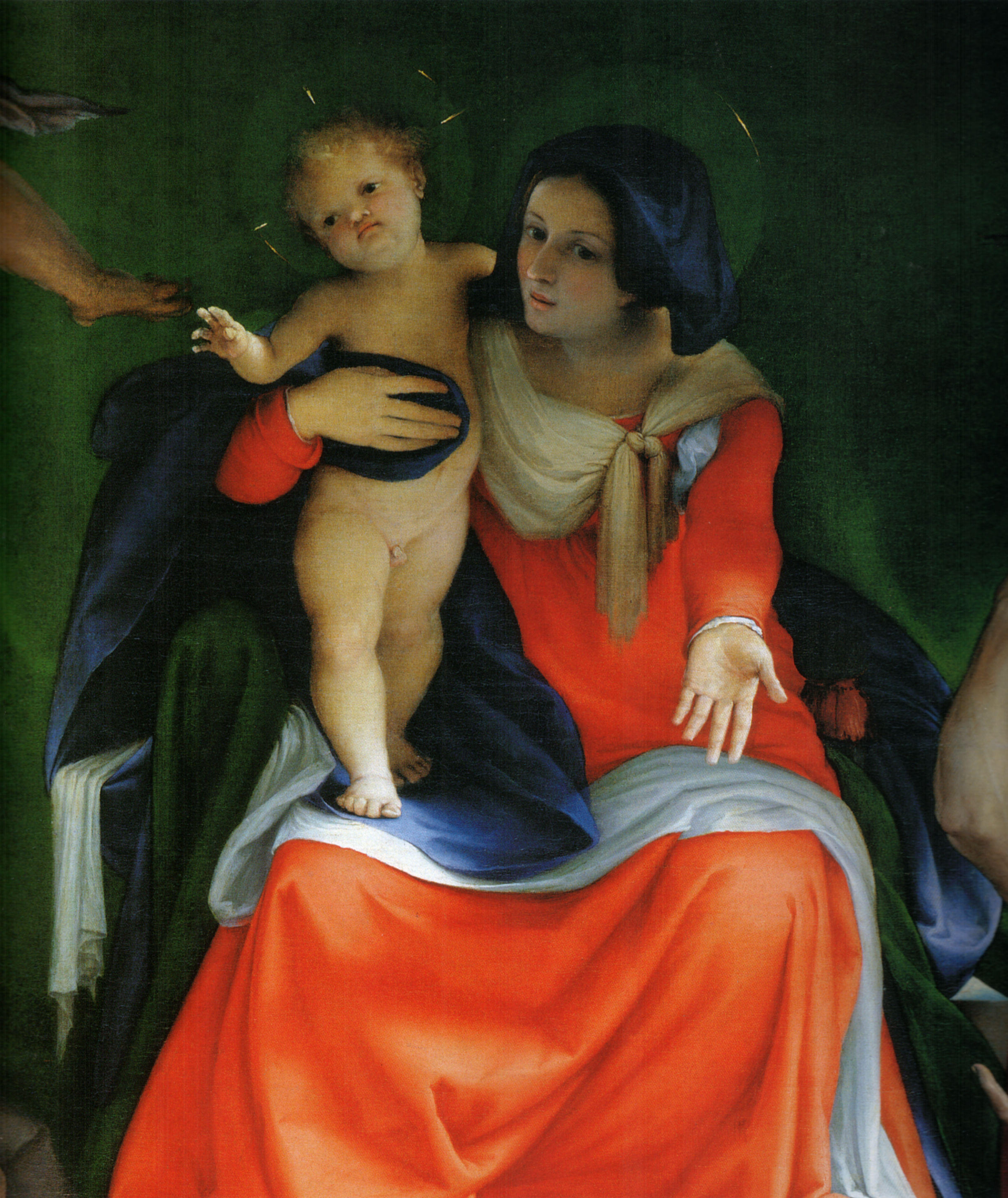 detail: Madonna and Child